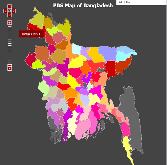 Dinajpur Pollibiddut Samity 1 Map of Bangladesh